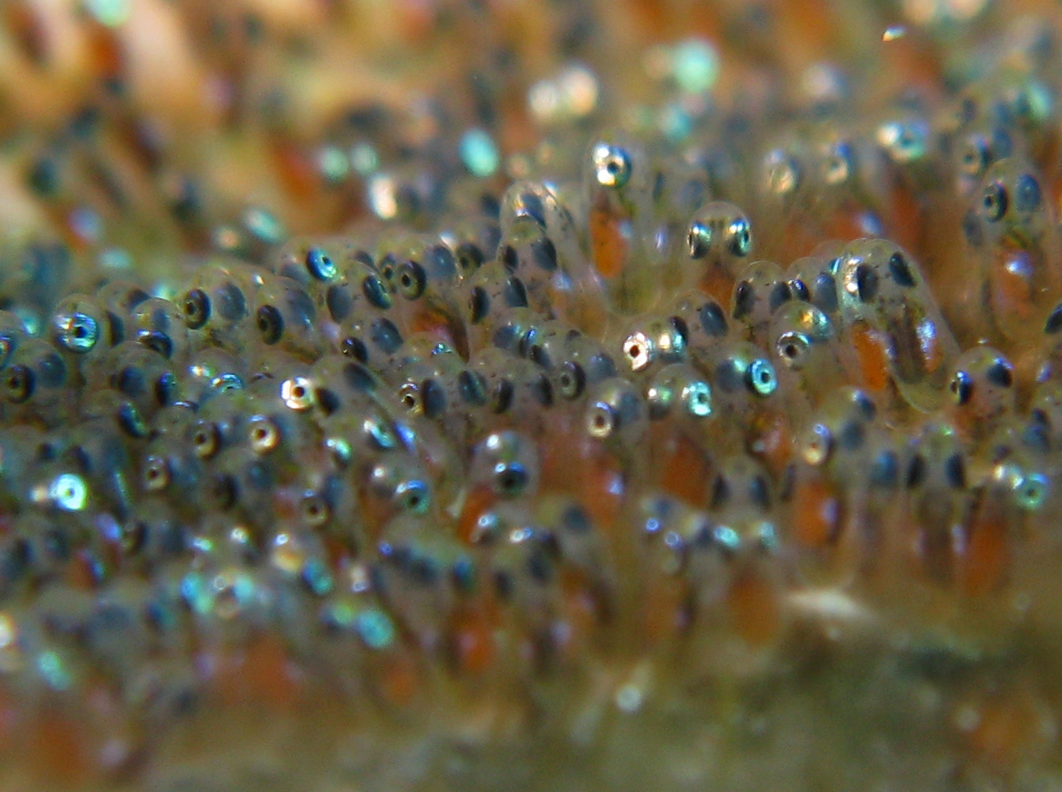 Anemone Fish Eggs